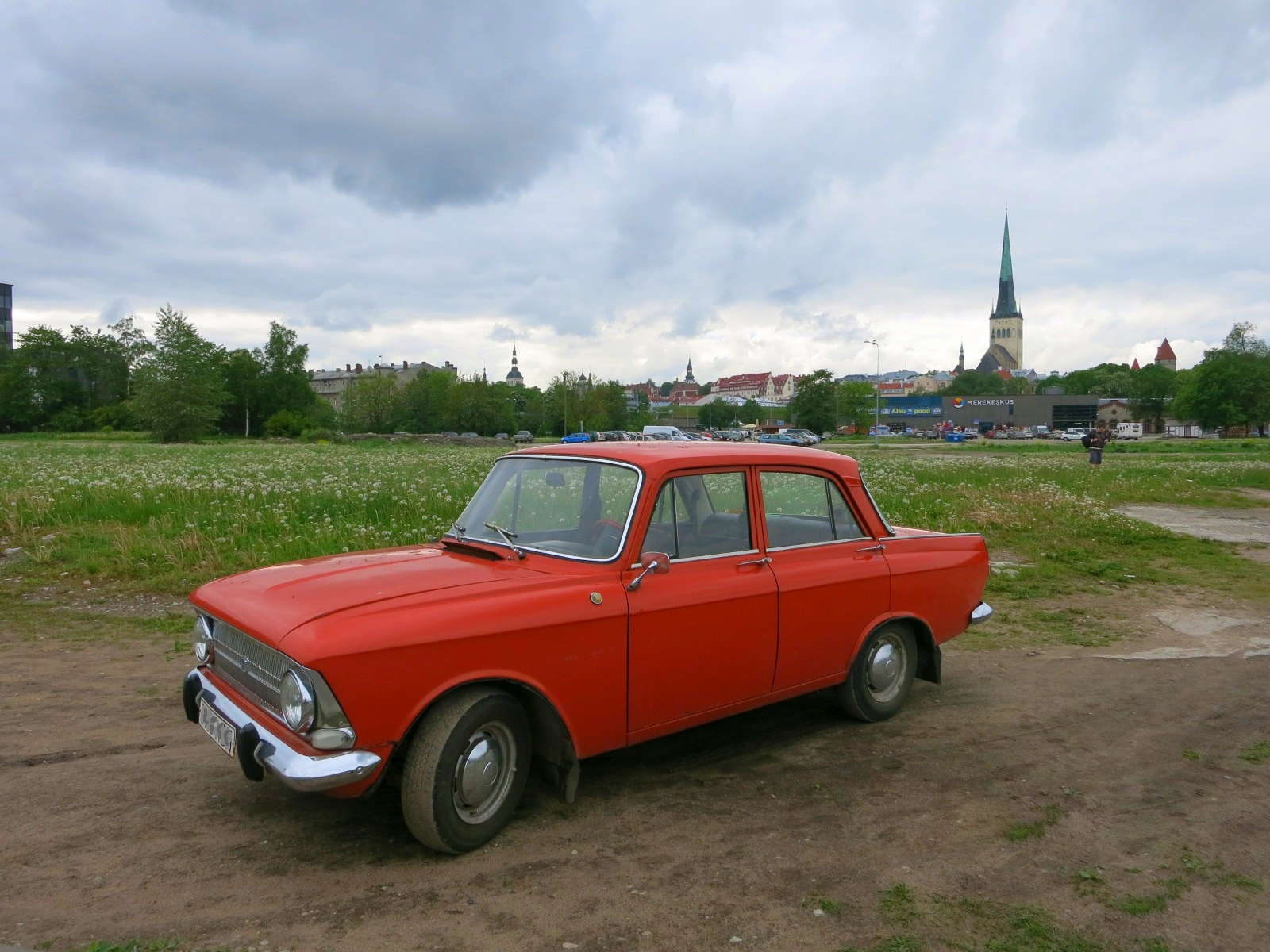 Old Moskvitš (age about 40 years), and on skyline old Tallinn (age more than 400 years).